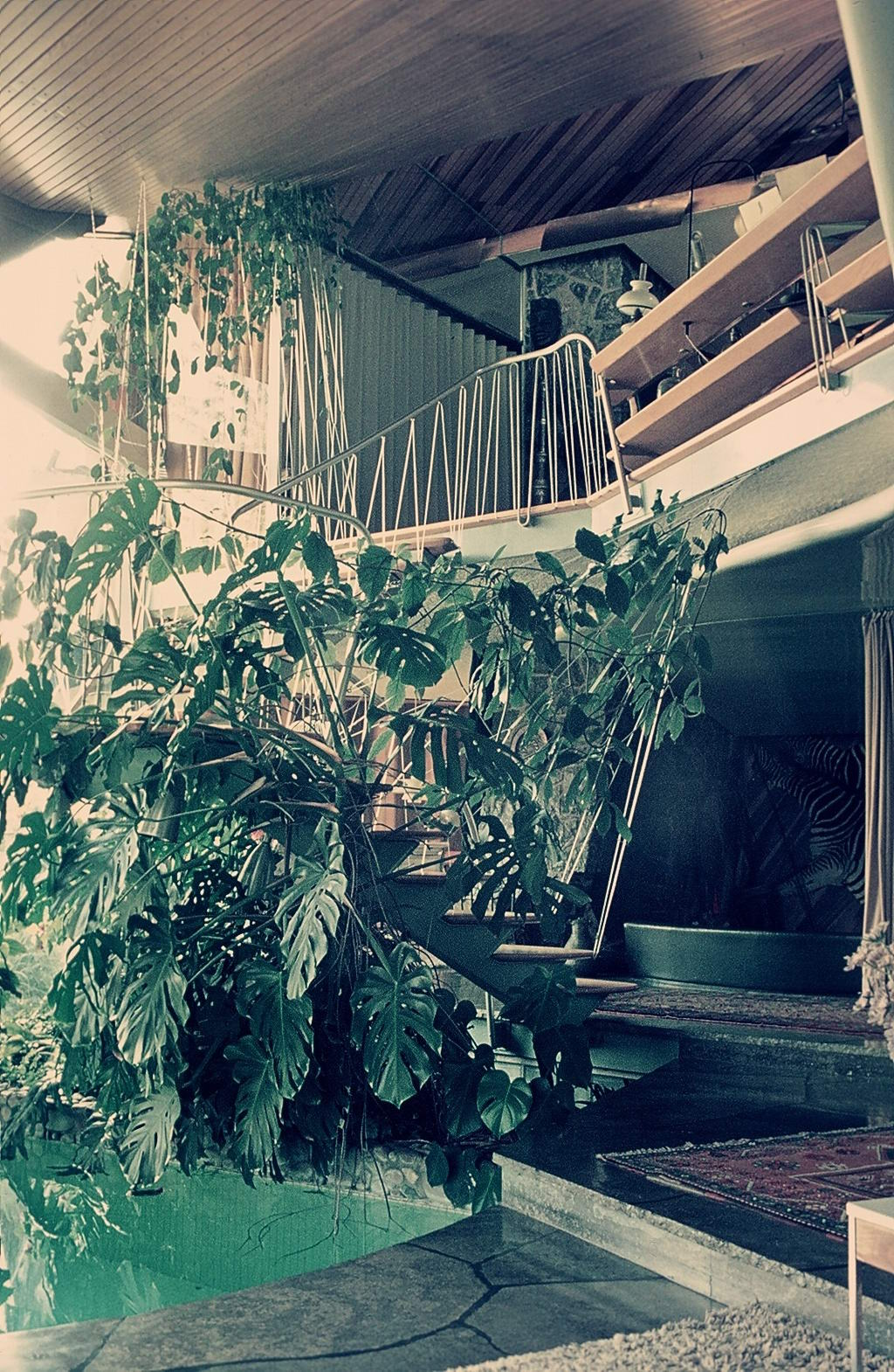 Chen Kuen Lee, Straub senior mansion (1956)